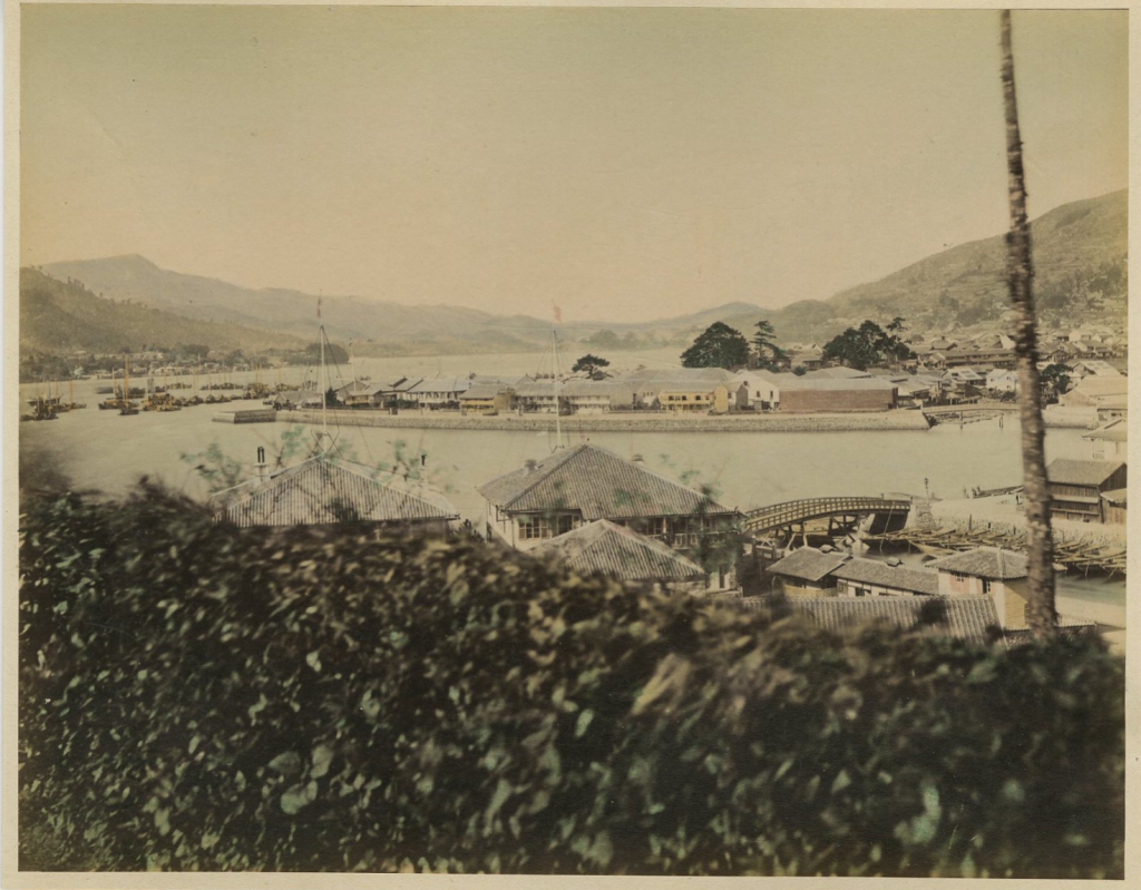 C1870`s Nagasaki Dejima Island, UCHIDA KUICHI